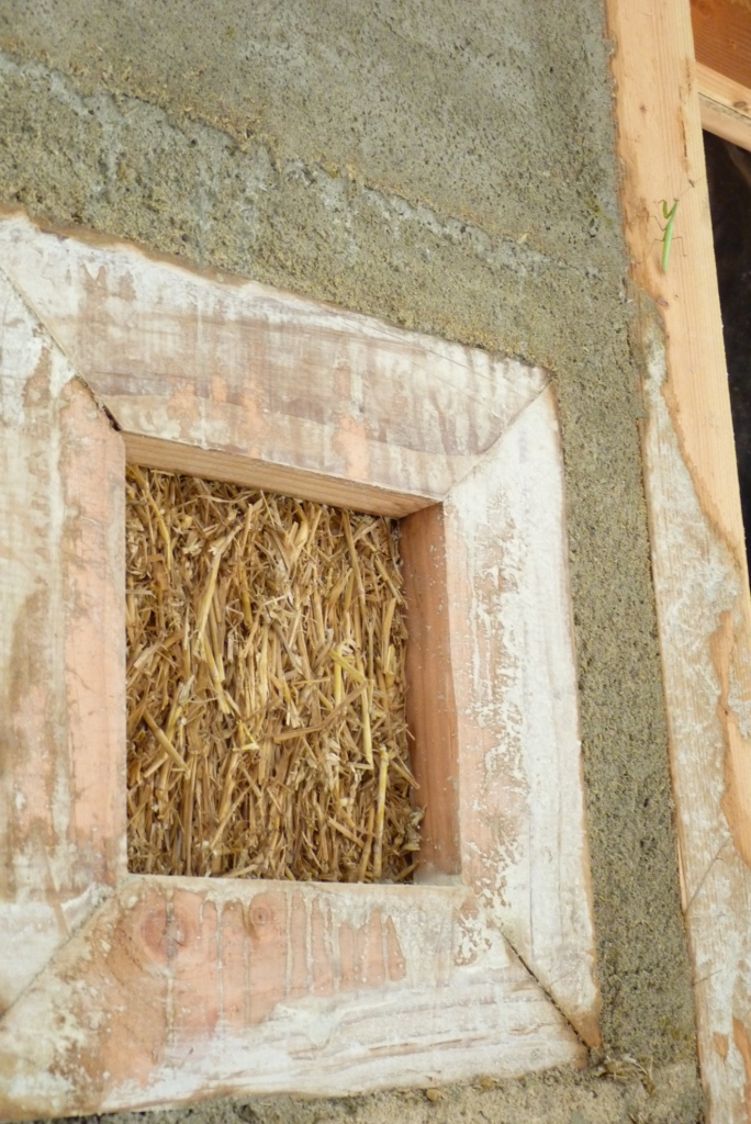 Fenêtre de vérité réalisée dans un mur en technique du GREB